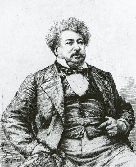 French writer Alexandre Dumas, pere.